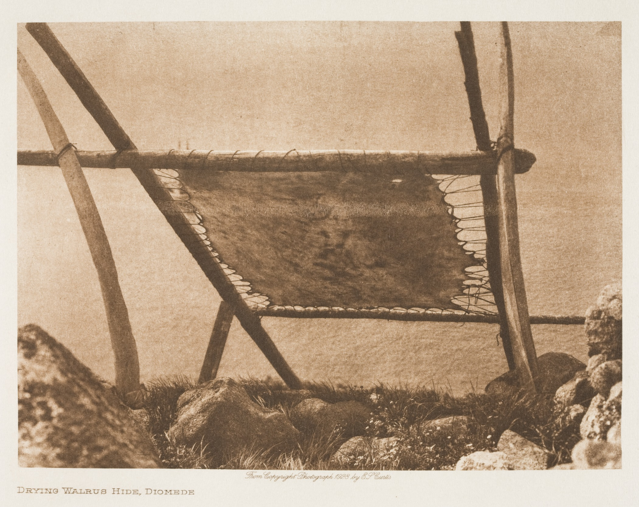 United States, 1928 Photographs Photogravure on paper Gift of Mark and Pam Story (AC1997.271.22) Photography